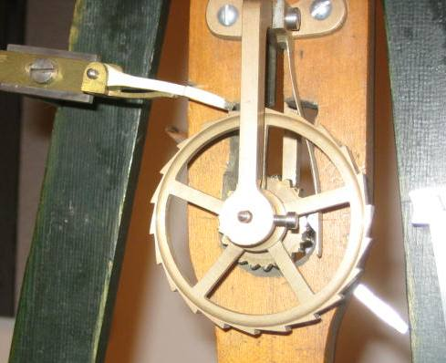 An image of countwheel on the 1872 Manhard detached escapement at the Schwaebisches Turmuhrenmuseum in Meindelheim Germany